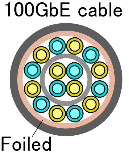 Cross section of 100GbE cable